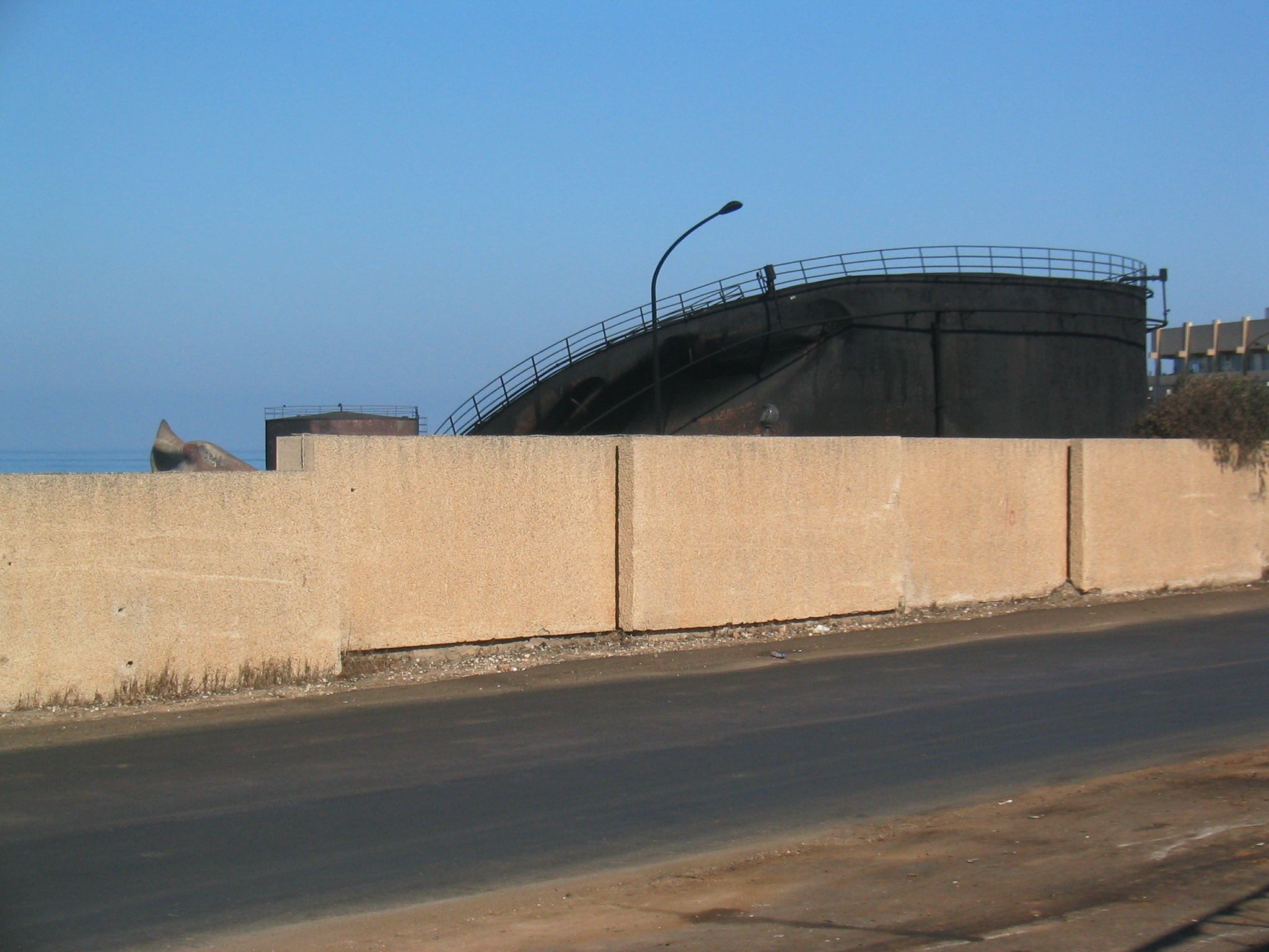 Damaged oil tanks at Jiyeh power station, Lebanon